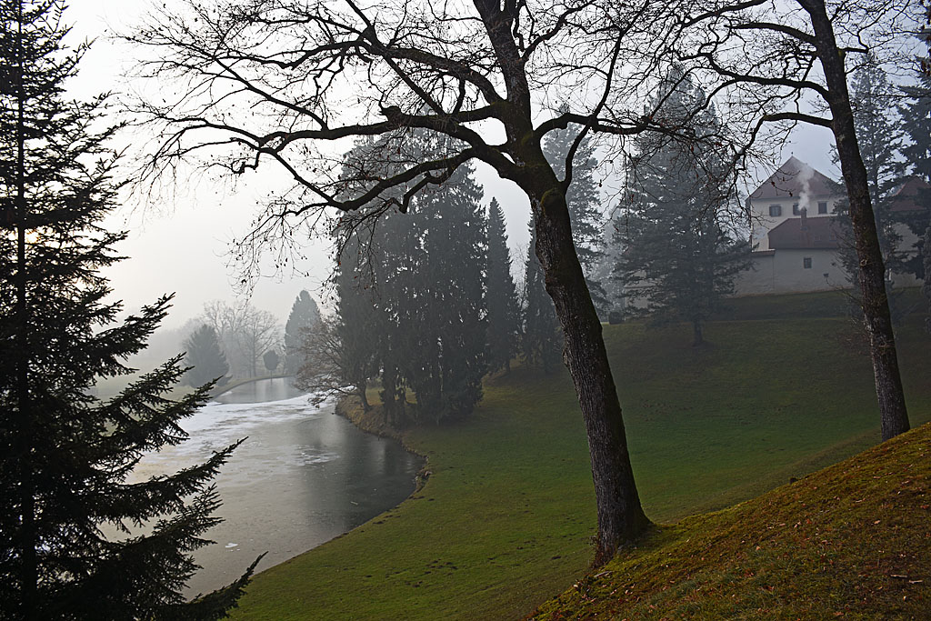 Near the castle of Strmol there is this nice parc with a pond below the castle.